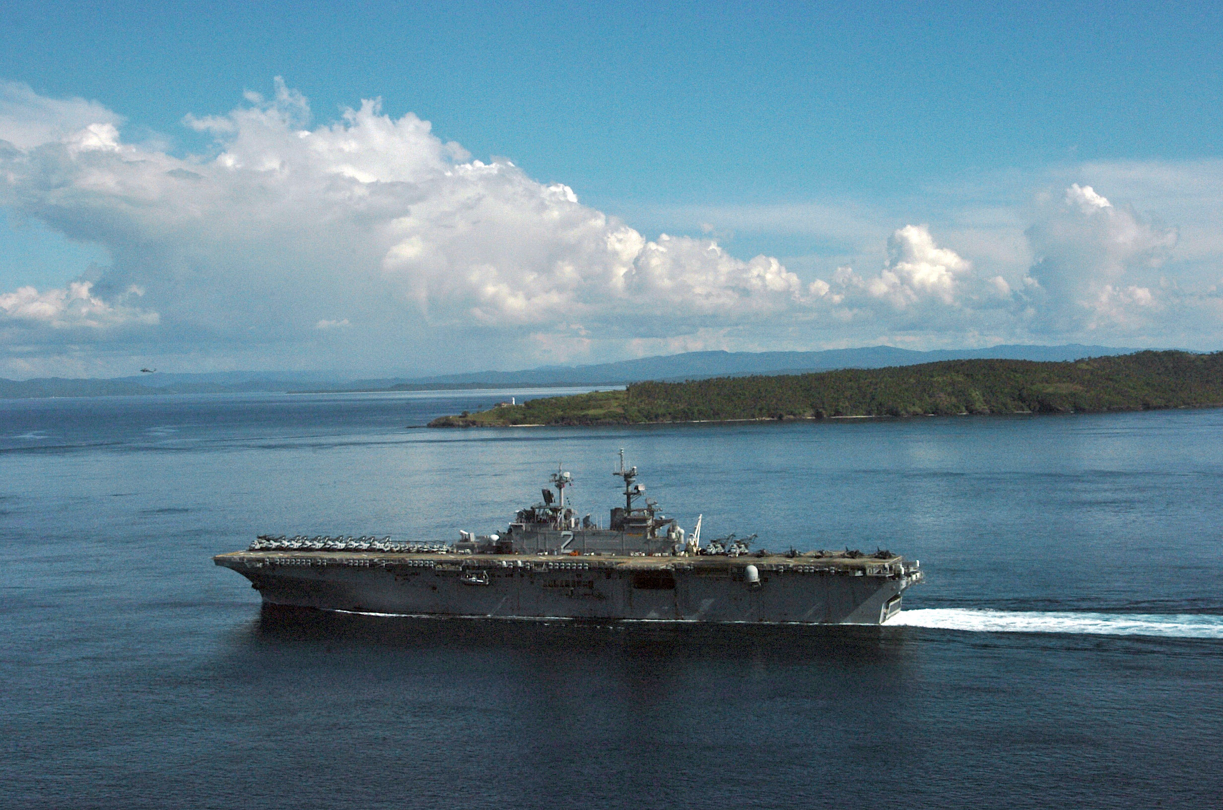 Pacific Ocean (Nov. 4, 2006) - USS Essex (LHD 2) passes the Capul Island Lighthouse as it transits through the San Bernardino Straits after completing a port visit to Subic Bay, Philippines. Essex and 31st MEU were in the Philippines to participate in bilateral exercises, Exercise Talon Vision and Amphibious Landing Exercise (PHIBLEX 07), with the Armed Forces of the Philippines (AFR). U.S. Navy photo by Mass Communication Specialist 1st Class Michael D. Kennedy (RELEASED)